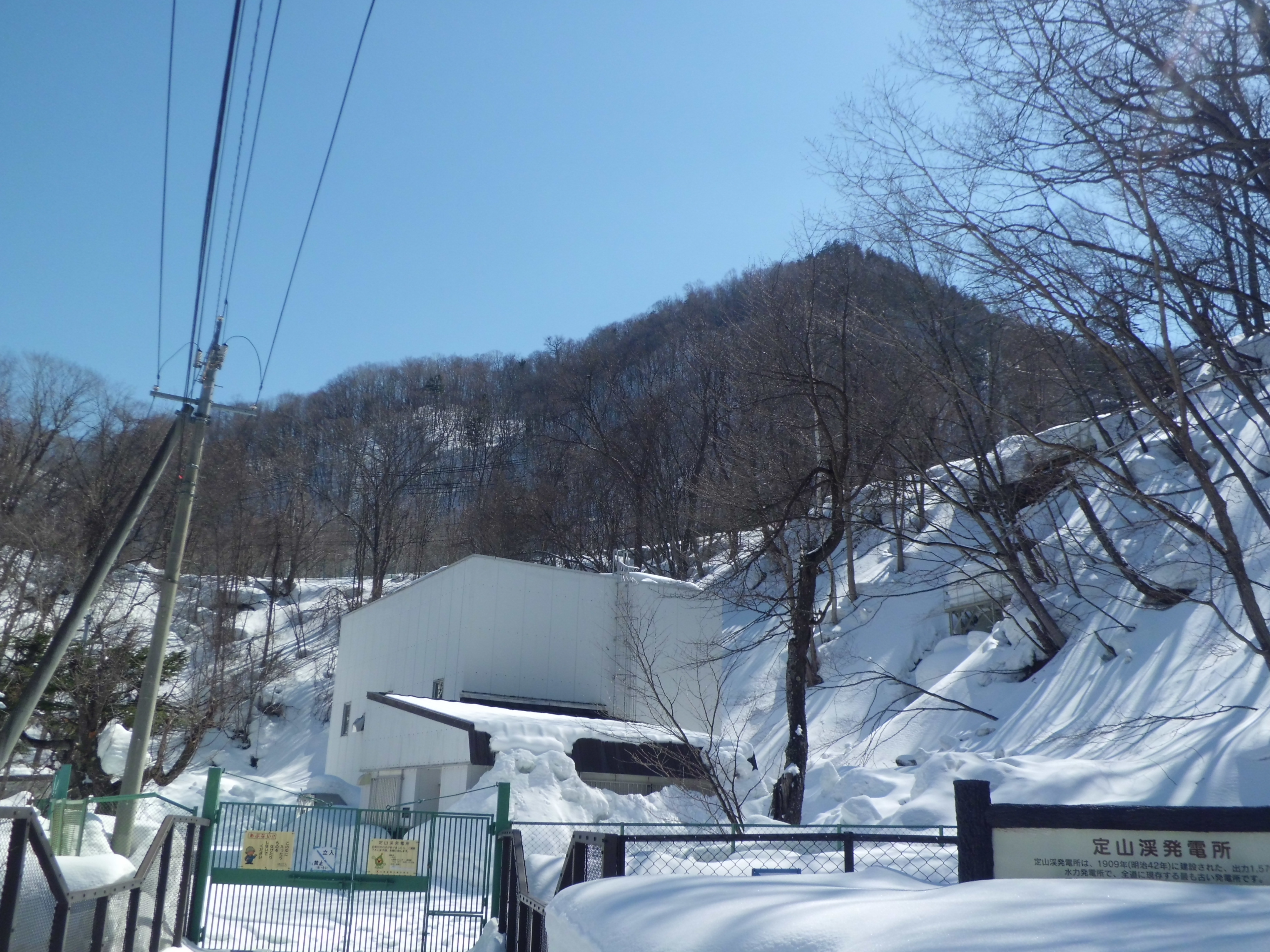 Jozankei Power Station